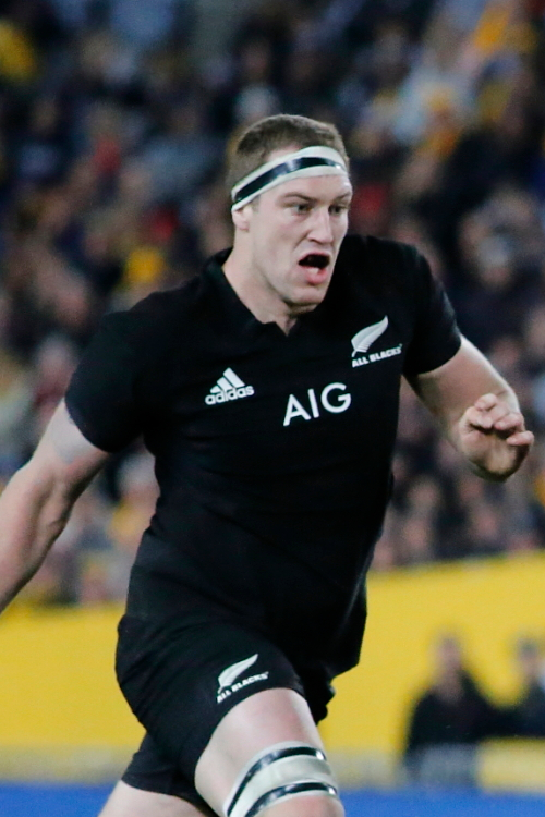 New Zealand's Brodie Retallick in Australia v New Zealand Rugby Championship match at Sydney